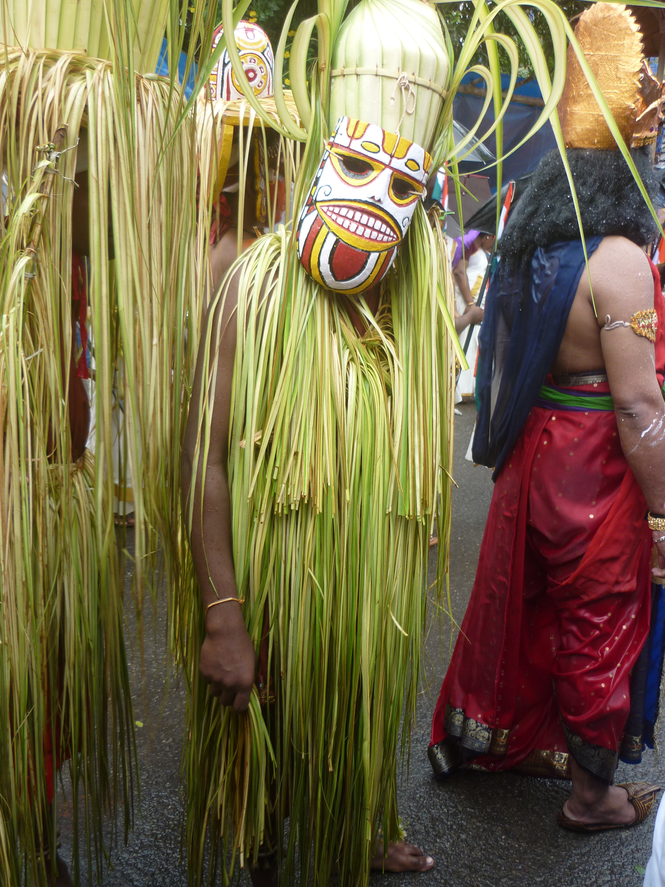 Athachamayam festival in Kerala